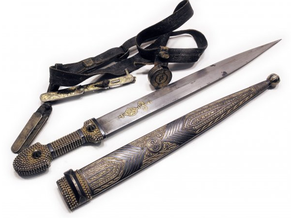 Circassian kindjal